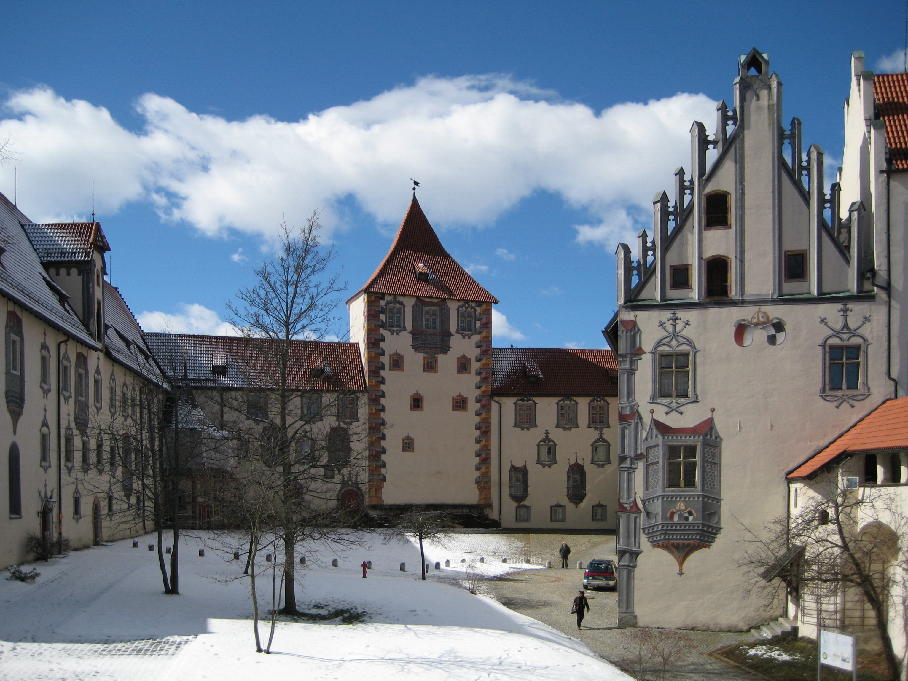 “Hohes Schloss” (High Castle) in Füssen, inner courtyard